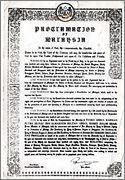 The Proclamation of Malaysia